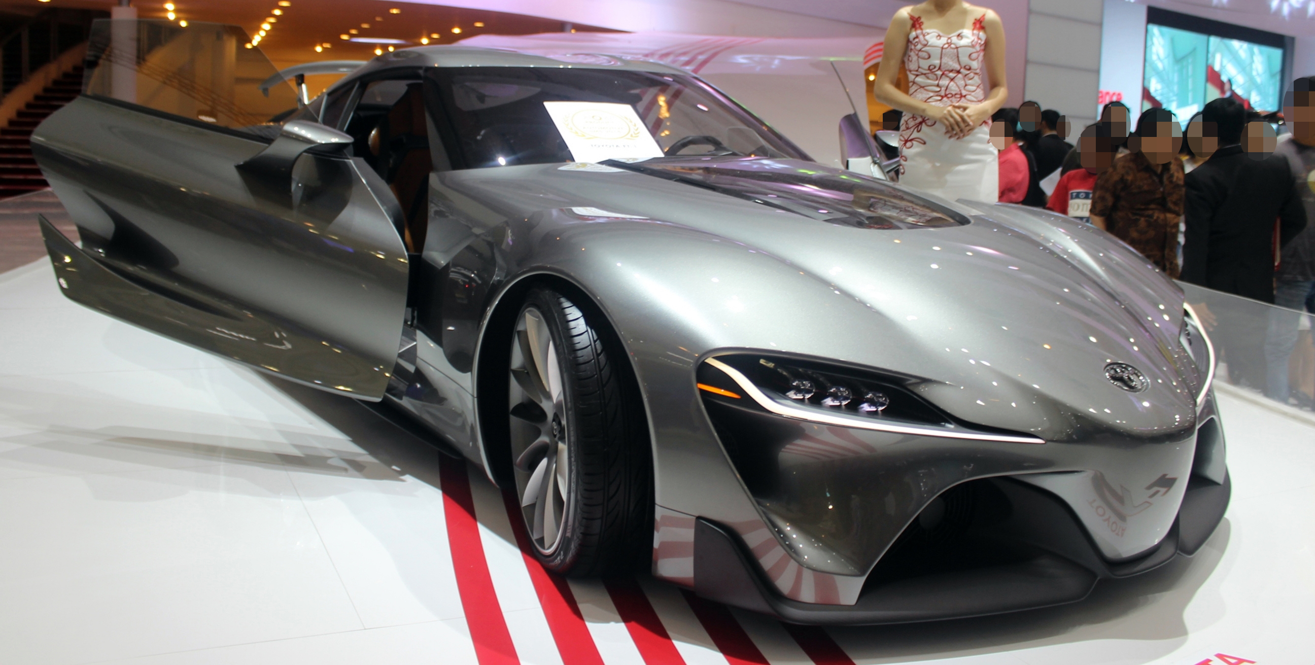 Toyota FT-1 Graphite